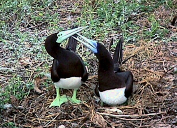 Brown Boobies build a stick nest on the ground. Coral Sea islands, Australia.